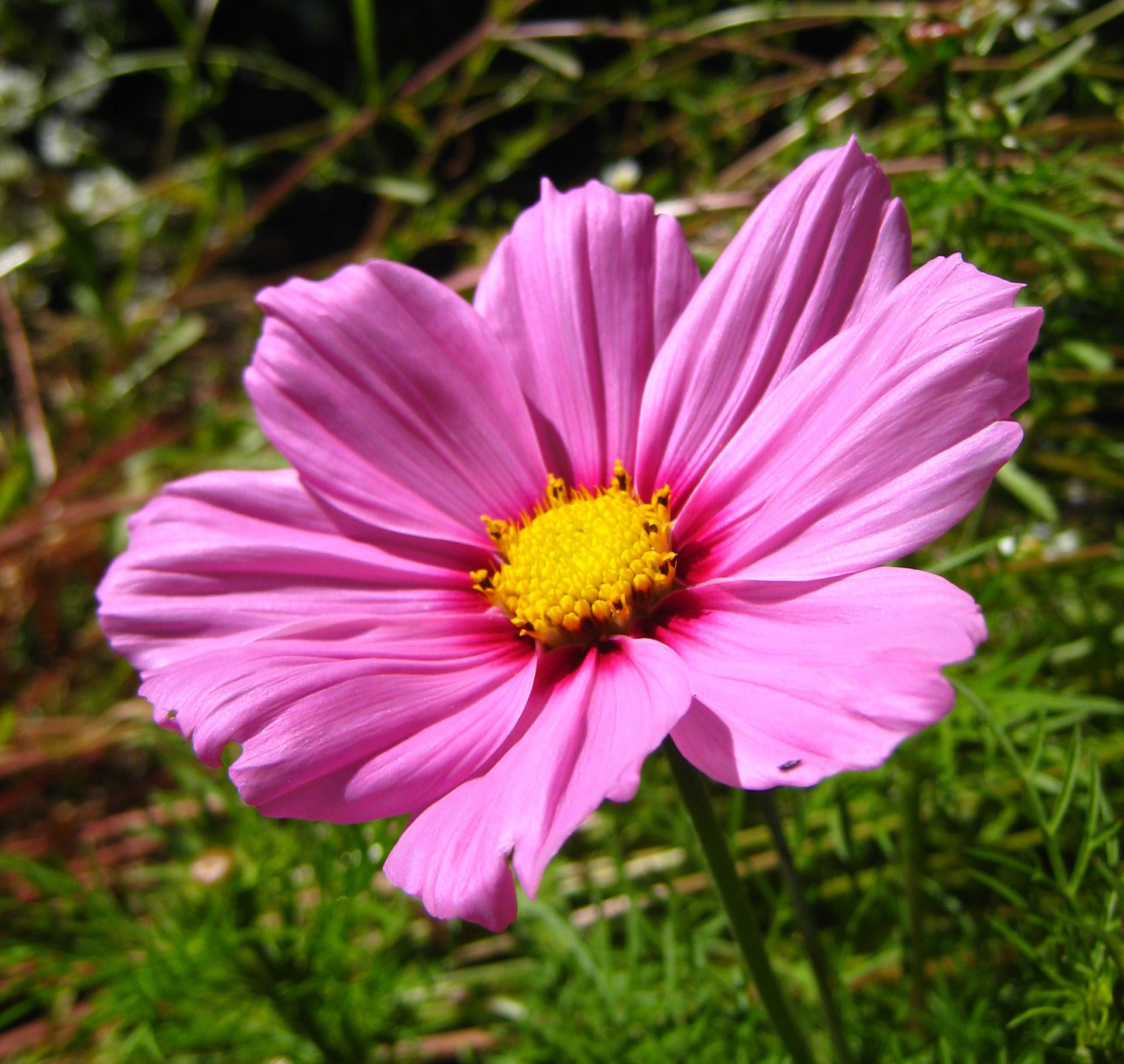 Pink Mexican aster, Cosmos bipinnatus, flower with yellow center. Orcas Island, WA, USA.